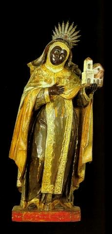 St. Ifigenia, Minas Gerais (Brazil), 18th century. Wood (edited background).